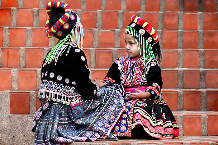 Chiang Mai Province, 2 girls from a tribe are sitting on the stairs of Wat Phra That Doi Suthep.